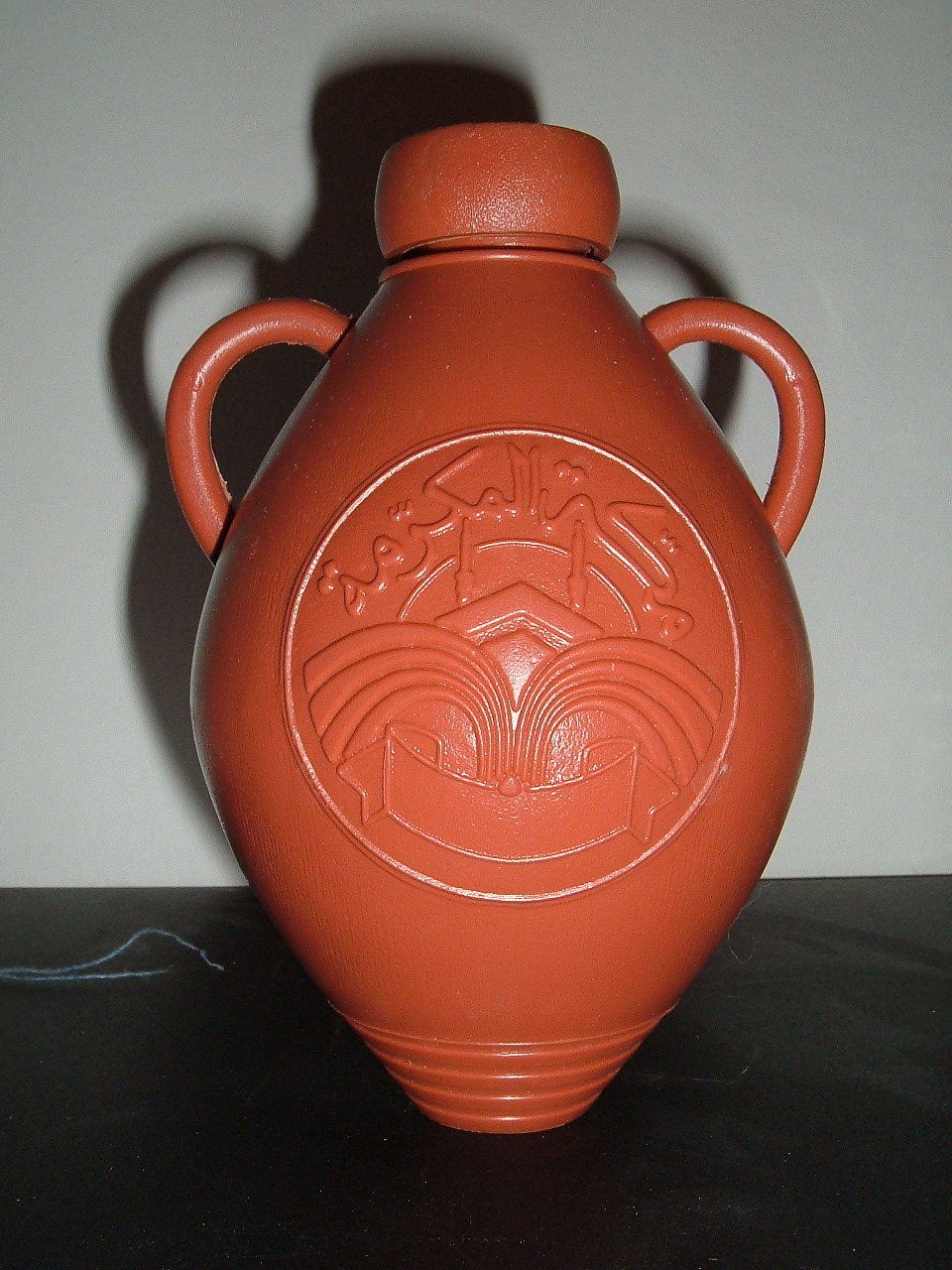 Bottle of Zamzam water as sold in the local mosque. Taken by Pilatus